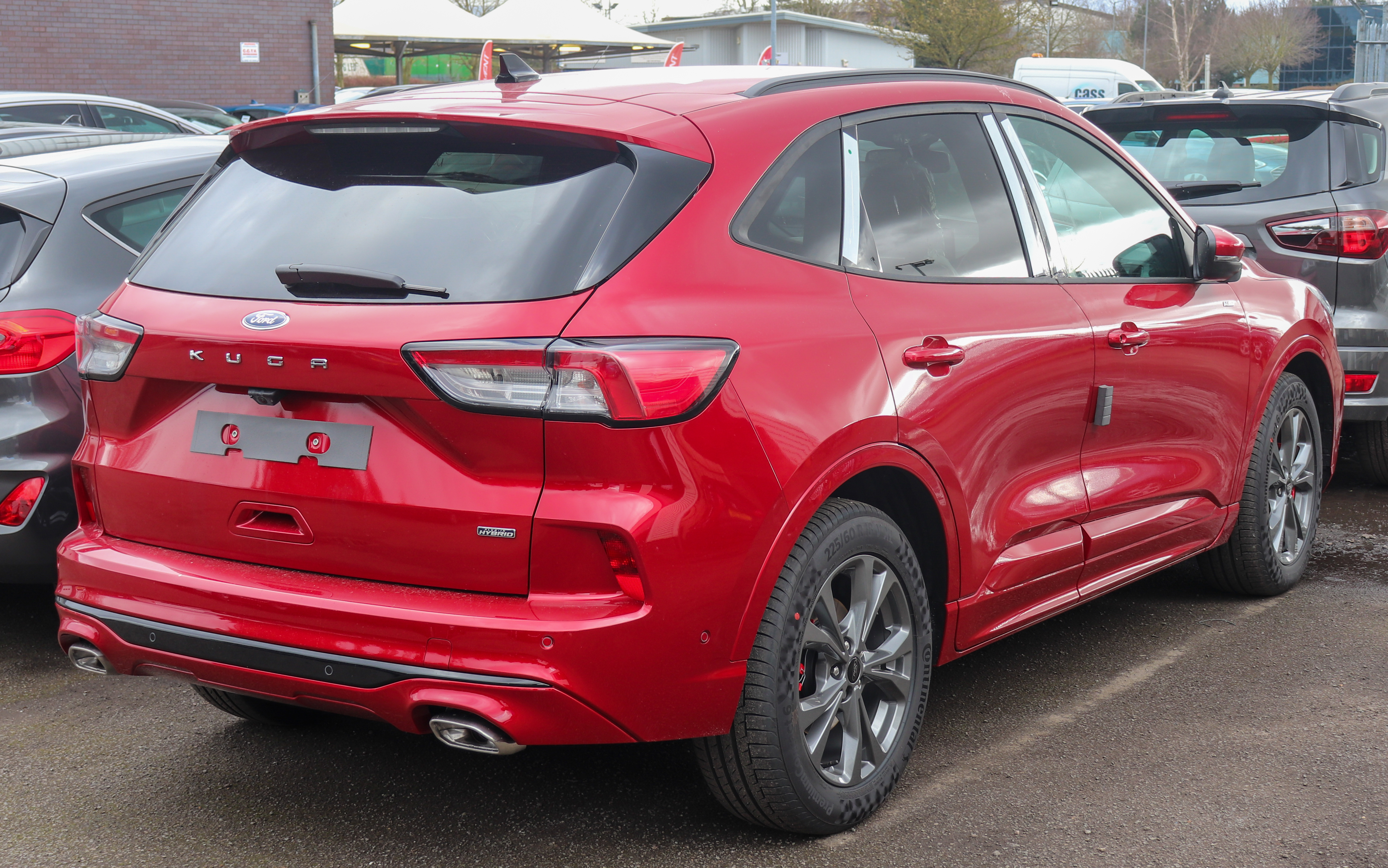 2020 Ford Kuga ST-Line Plug-In Hybrid Rear Taken in Leamington Spa